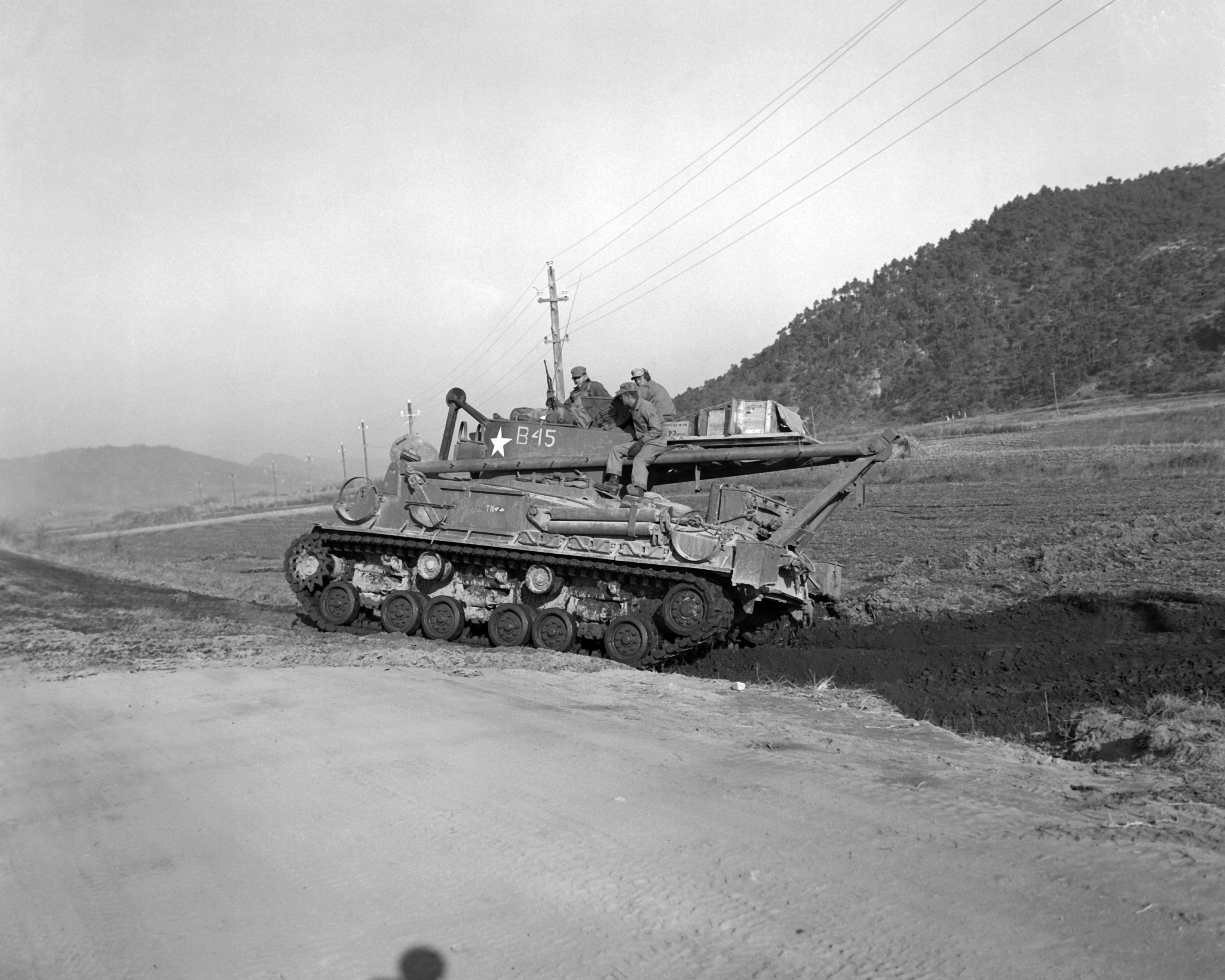 Operation / Series: KOREAN WAR B Company tank retriever moves back up onto road after by passing bridge on road to Hamhung. NARA FILE# : 127-GK-234P-A5242